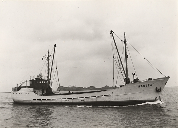 German coaster HANSEAT (IMO 5142310) built at Schiffswerft Pohl & Jozwiak, Hamburg, in 1950 (yard № 67), lengthened and converted to quarterdeck vessel in 1955; collection J. Robert Boman (1926 - 2002) owned by Sjöhistoriska museet.